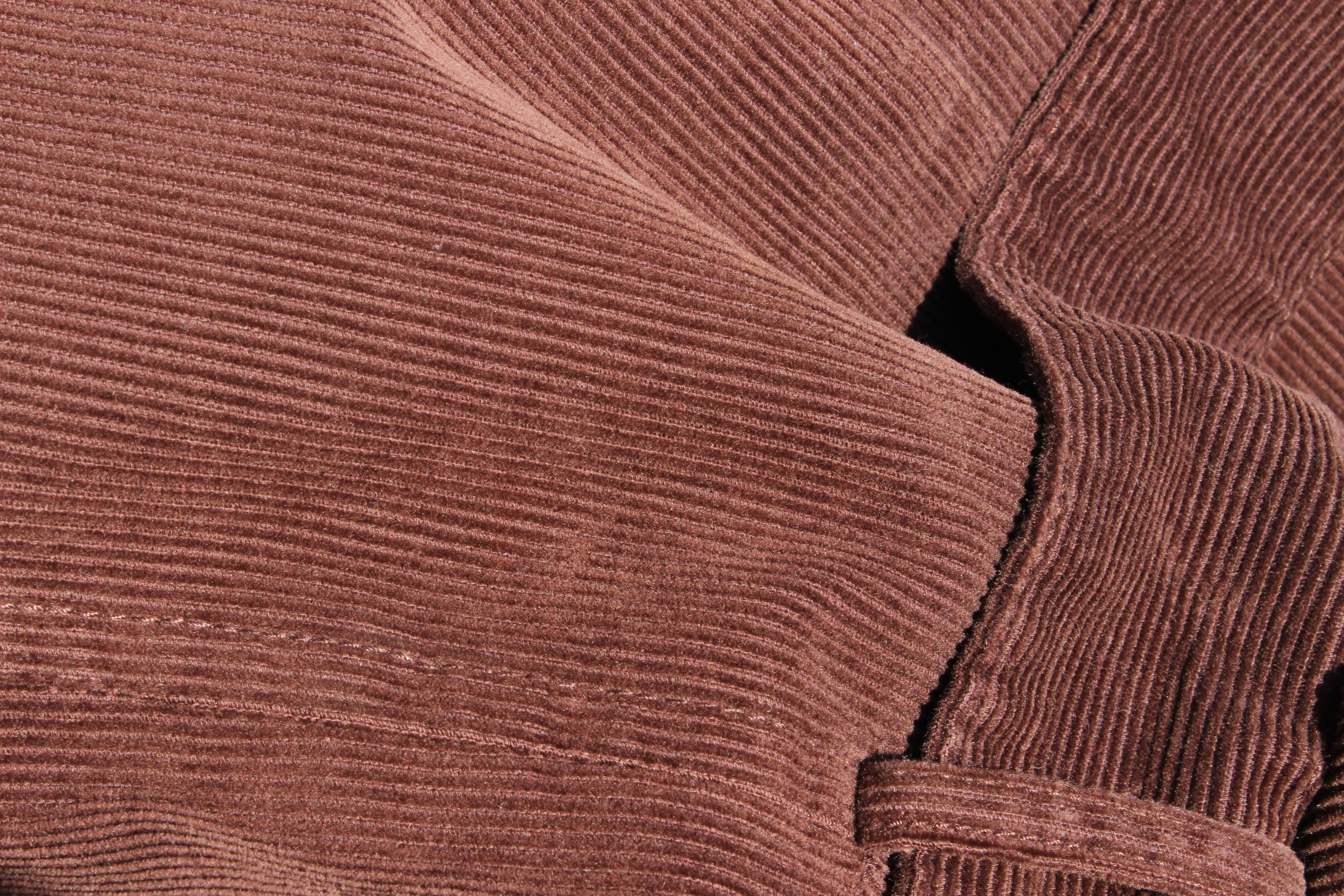 Corduroy texture - detail of a brown cotton jacket.